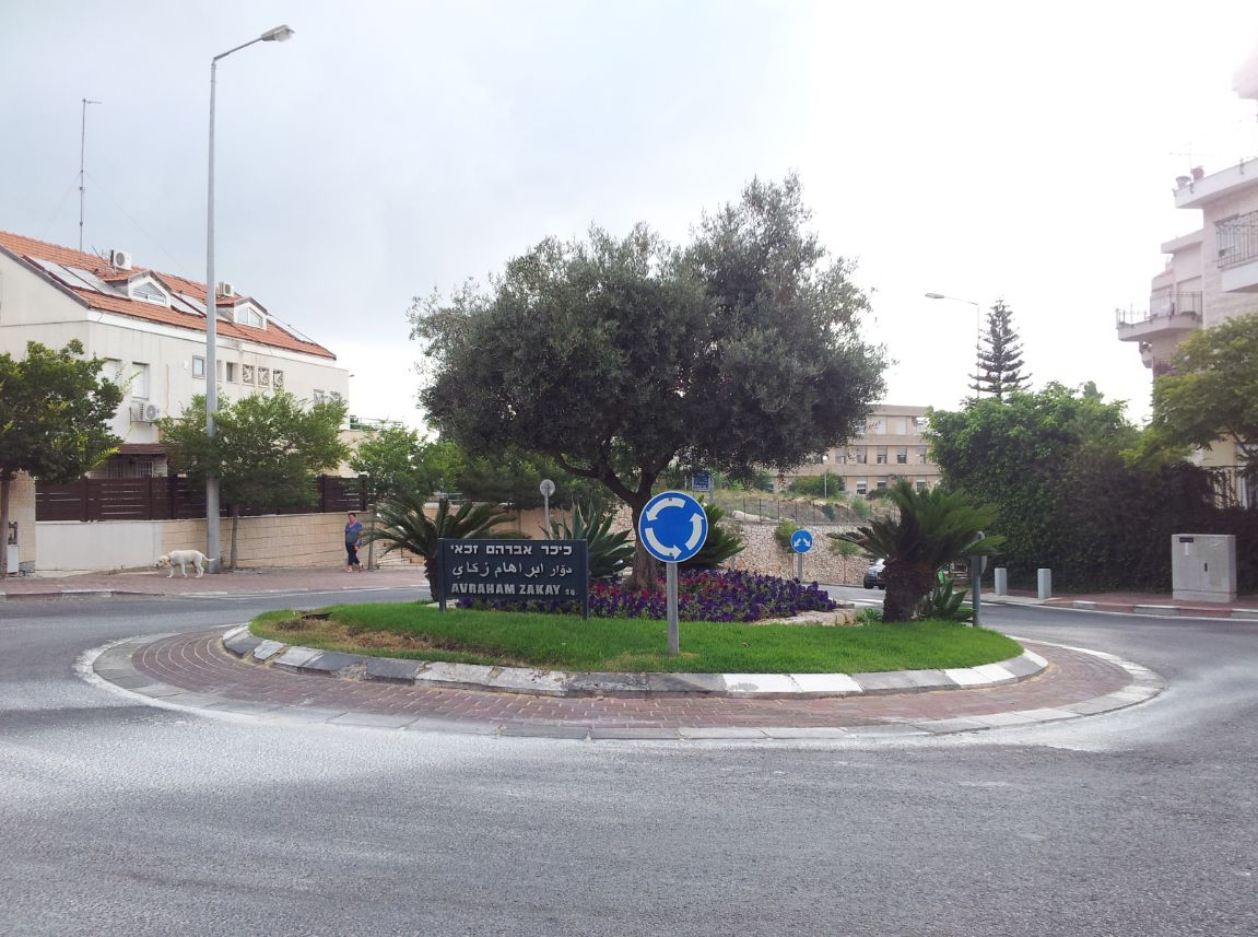 כיכר אברהם זכאי בחיפה